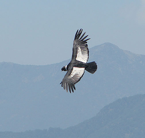 Upper side of the Andean Condor above Futuleufu Valley, Chile. In context at